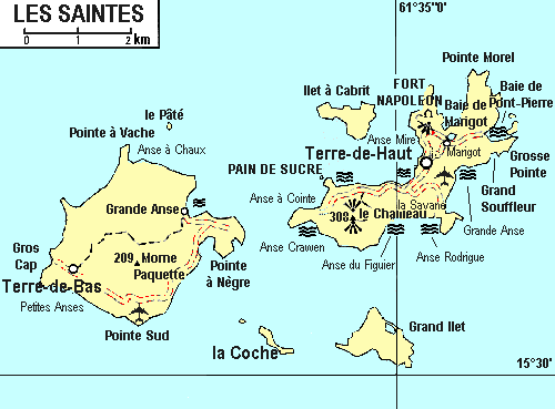 map of les Saintes, from 1993